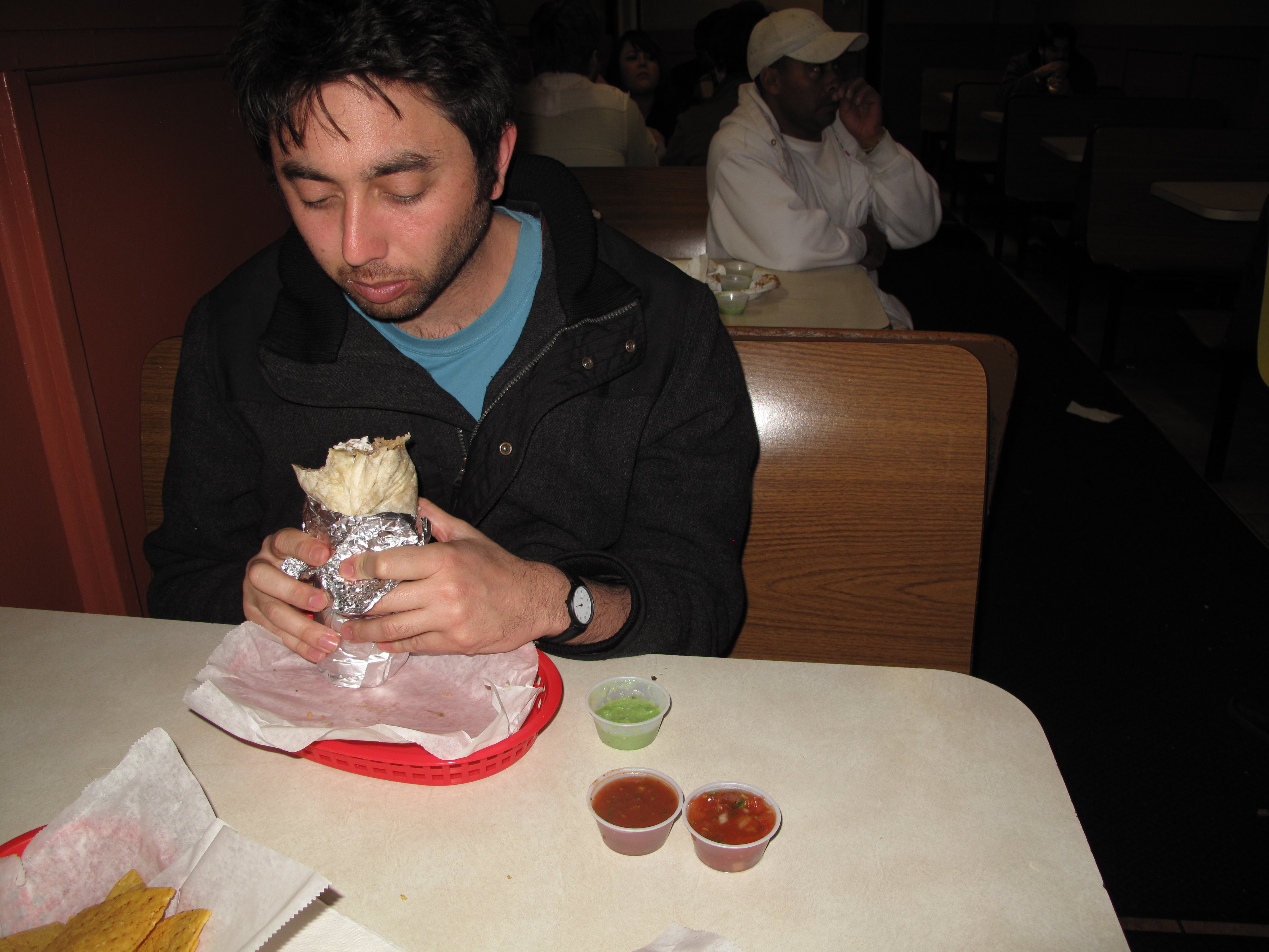 An example of a Mission style Burrito in San Francisco.